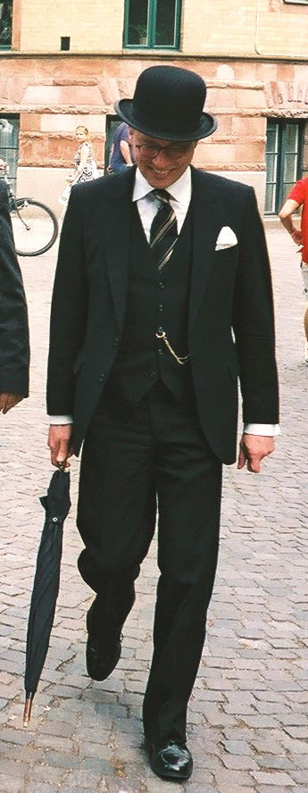 Gentleman wearing bowler hat and three-piece suit